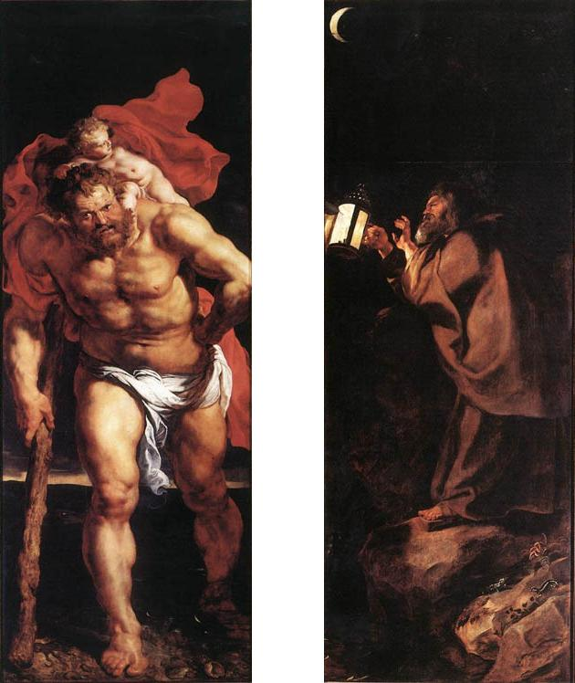 Saint Christopher carrying the Child child and A hermit saint. Oil on panel. 420 × 300 (each). Antwerp, Onze-Lieve-Vrouwekathedraal.